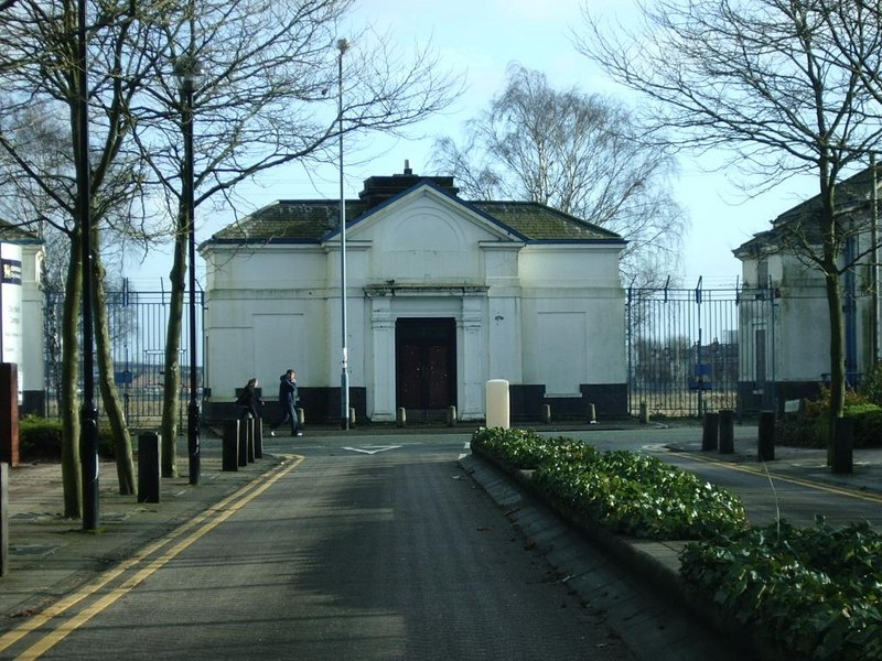 Former IMI entrance, Perry Barr Opposite entrance to University the buildings remain whilst land behind is unused.